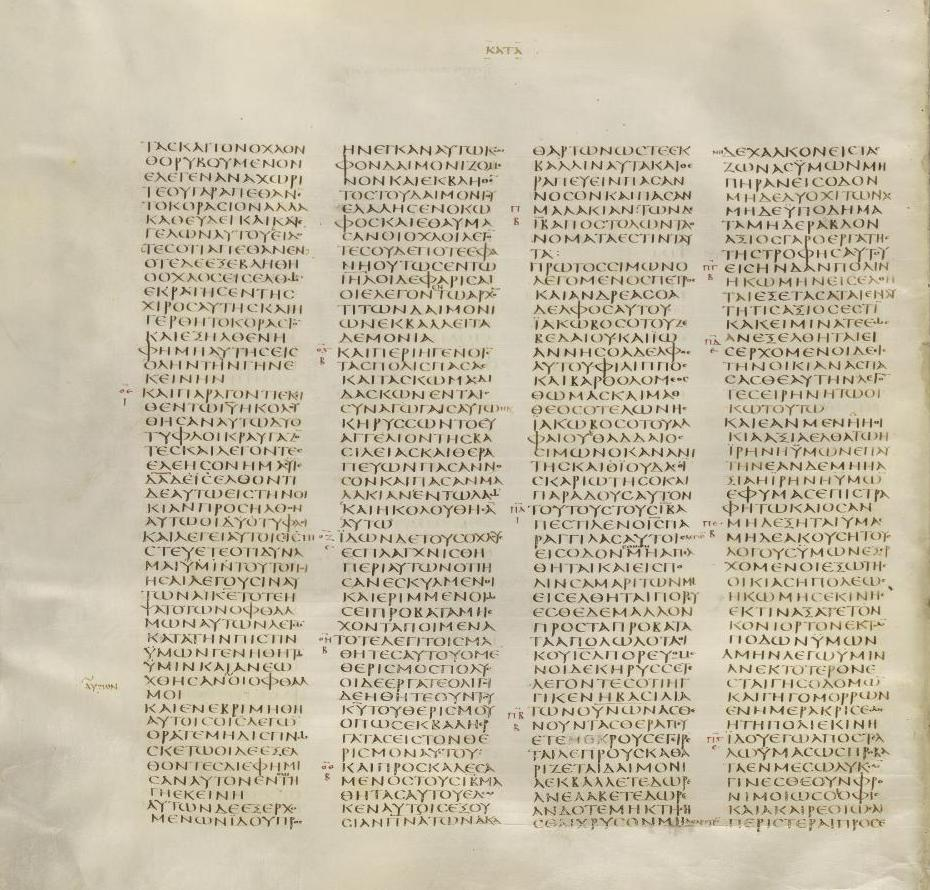 the page of the codex with text of Matthew 9:23b-10:17